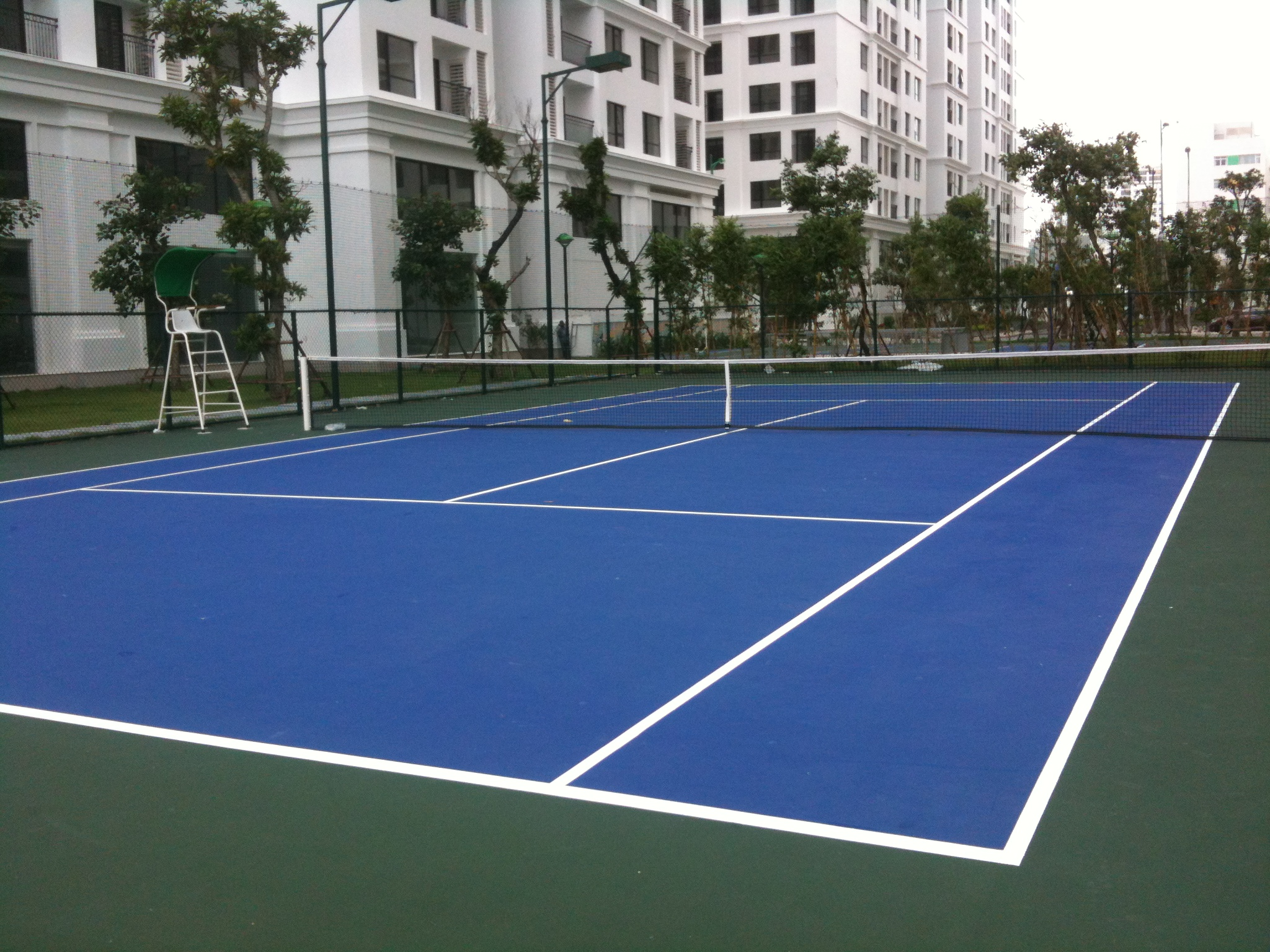 Hardcourt for Tennis at Times City 458 Minh Khai street, Hanoi, Vietnam